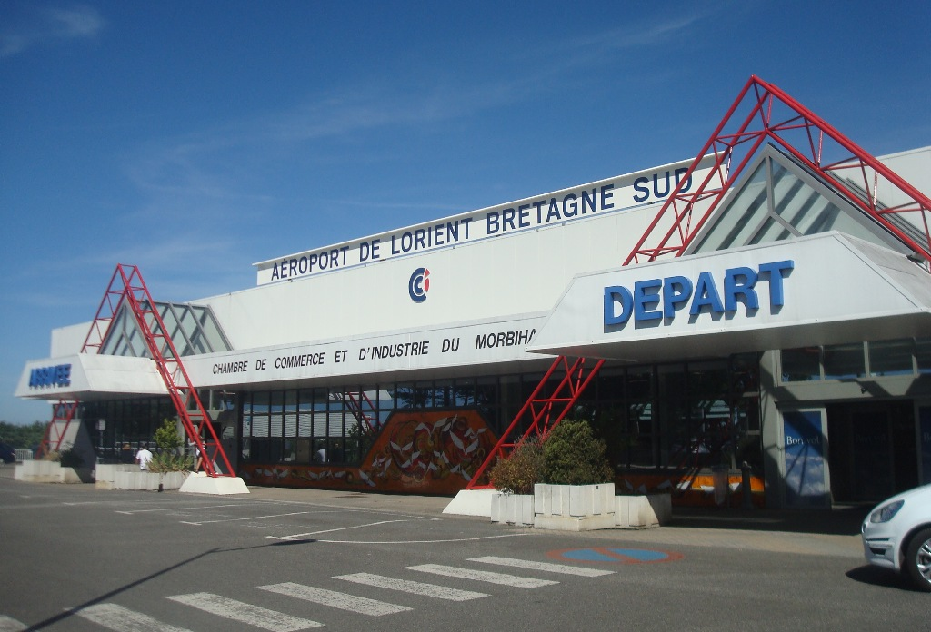 Departures and Arrivals terminal of Lorient's Airport.